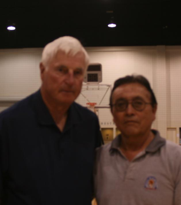 Basketball coaches clinic